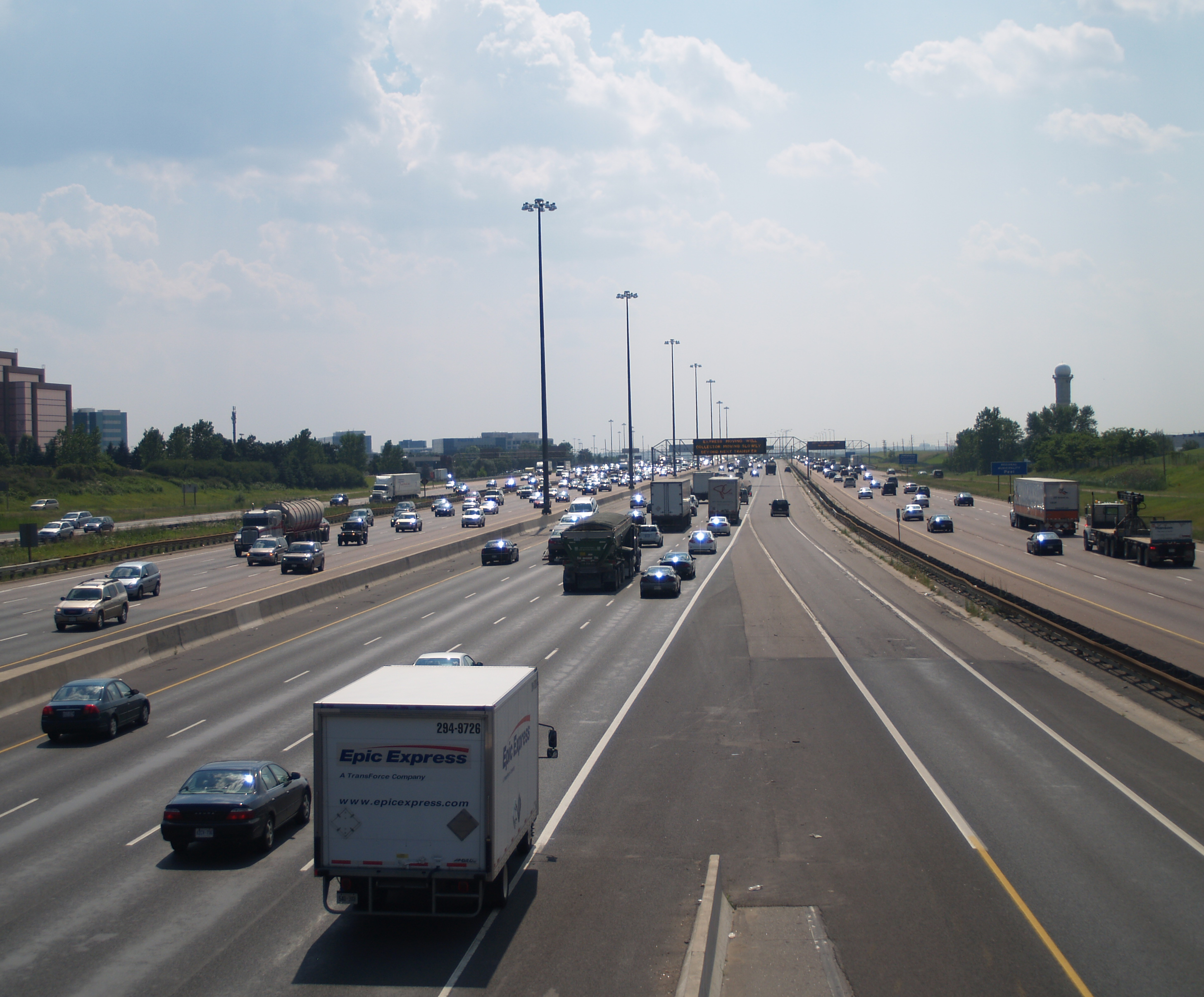 Looking west on Highway 401 pictured from Renforth Drive, showcasing its massive 18 lane cross section. (Behind the photographer is the Highway 401-highway 427 interchange.)